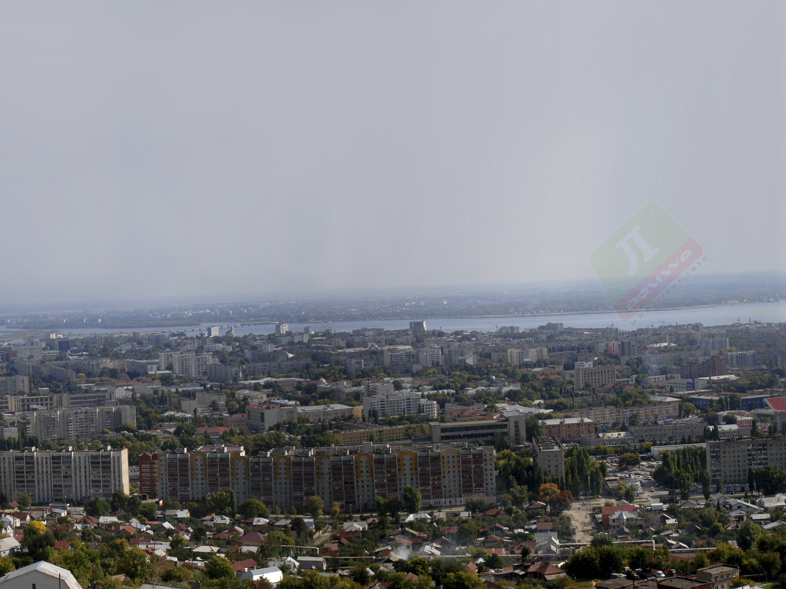 Saratov